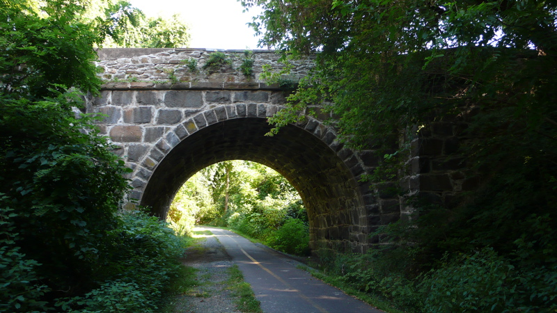 The Stone Bridge across the W&OD Trail at Clarkes Gap, VA